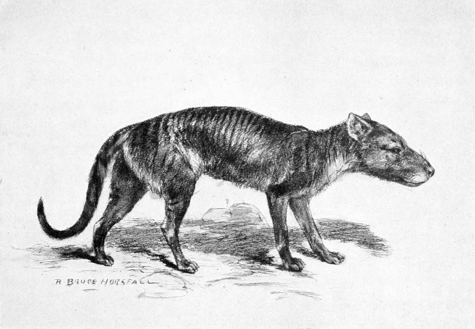 Synoplotherium (Dromocyon) velox